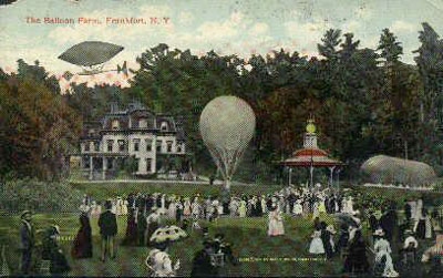 Balloon Farm (Frankfort, New York) in 1907